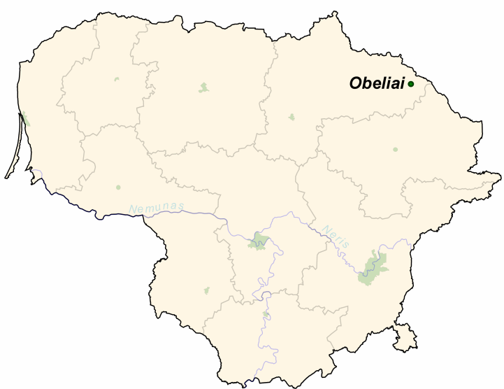 Obeliai on the map of Lithuania